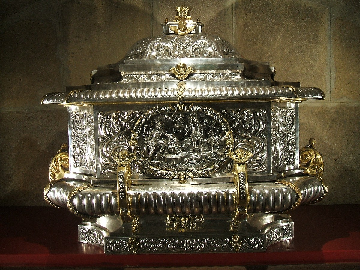 urna de plata que contenía las reliquias de los niños santos Justo y Pastor, en la Catedral de su advocación en Alcalá de Henares (Madrid, España)